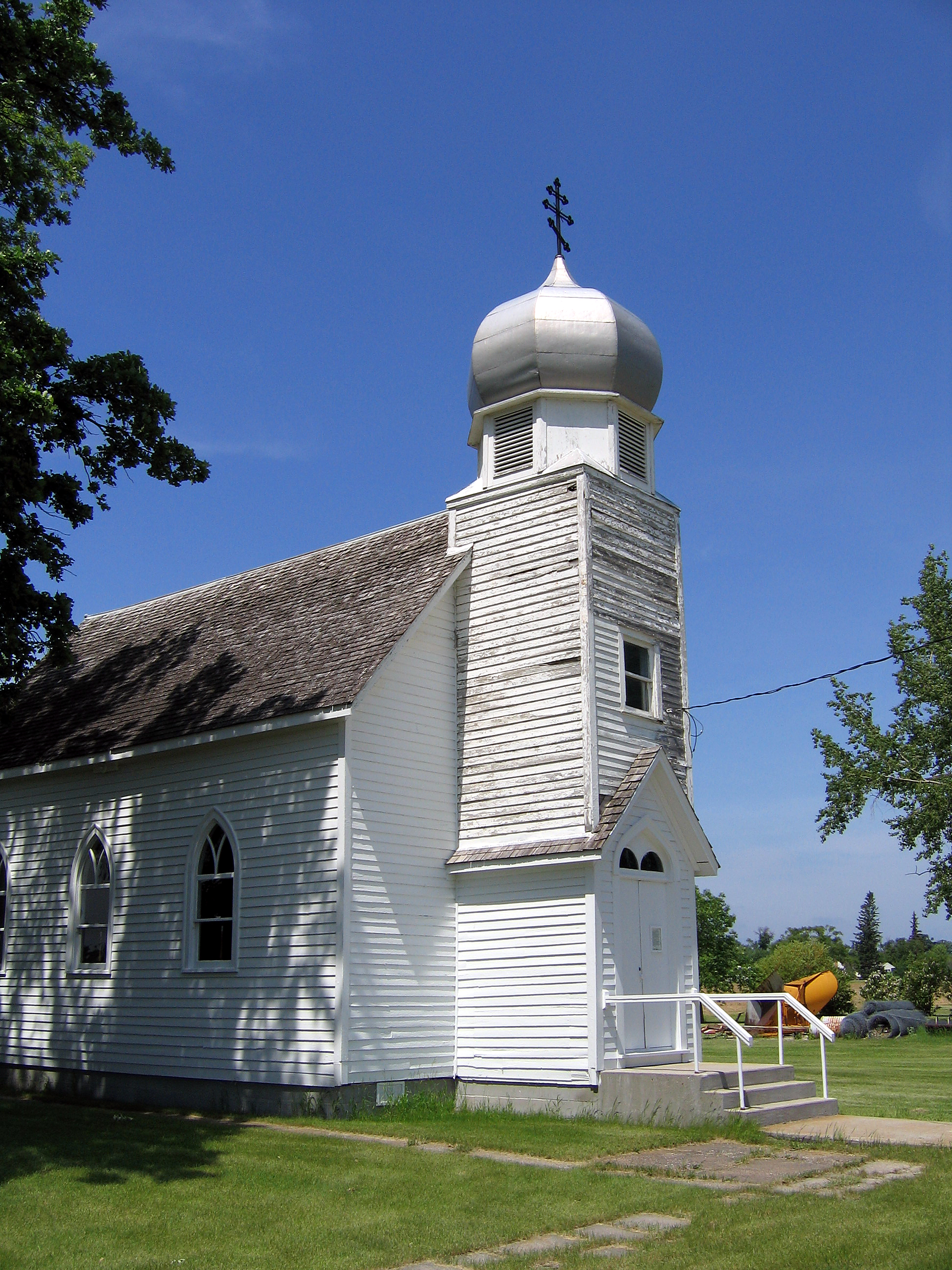 Orthodox church in Pembina, North Dakota. Icelandic Lutheran/Ukrainian Greek Orthodox Church est. 1885 Pembina, North Dakota. Established 1885 as an Icelandic Lutheran Church. Sold to Ukrainian Greek Orthodox parish in 1937, at which time the Byzantine onion dome was added. It is now in the care of the Ft. Pembina historic society.